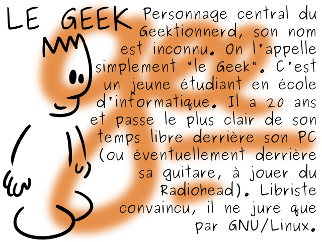 Character description of the Geek (from Le Geektionnerd).